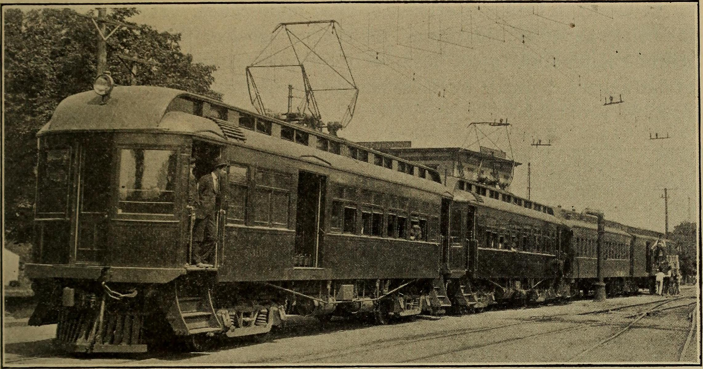 Title: Electric traction for railway trains; a book for students, electrical and mechanical engineers, superintendents of motive power and others .. Year: 1911 (1910s) Authors: Burch, Edward P. (Edward Parris), 1870-1945 Subjects: Railroads Publisher: New York (etc.) McGraw-Hill Book Company Text Appearing Before Image: Fig. 60. -Pittsburg and Butler Motor-car TraiSingle-phase 6600-volt railway. A recent practice in motor-car train service is to place a steel baggagecar at the head of each passenger train, so that, in case of collision orderailment, the safety to life will be increased. MOTOR-CAR TRAINS 235 10. Capacity is a prime characteristic of motor-car trains. Thesubject was treated in Chapter III, Advantages of Electric Traction.In addition: Text Appearing After Image: Fig. 61.—Erie Railroad. Rochester Division Motor-car Train.